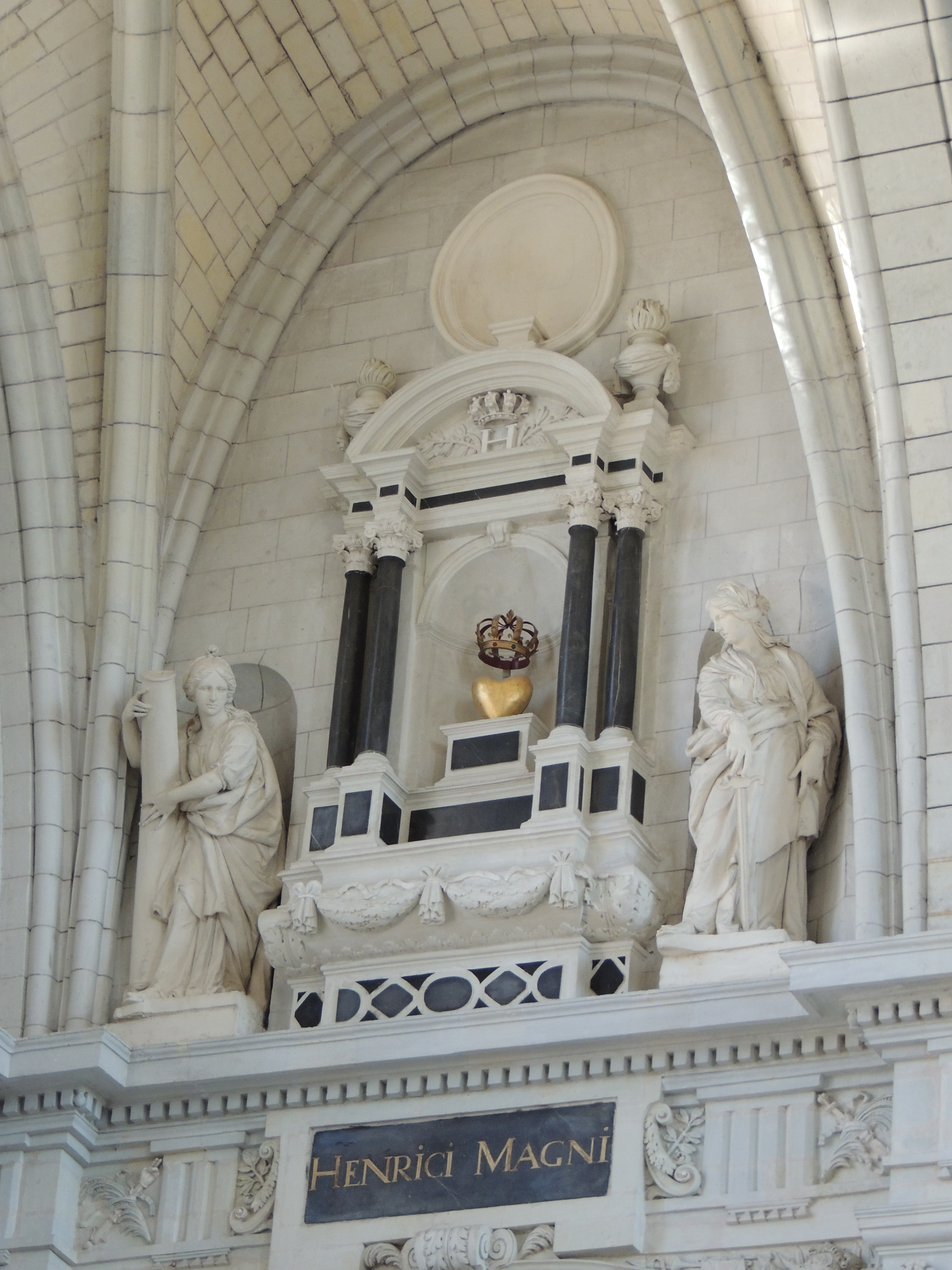 Le cardiotaphe contenant les cendres des cœur d'Henri IV et de Marie de Médicis en l'église Saint-Louis du Prytanée militaire de La Flèche